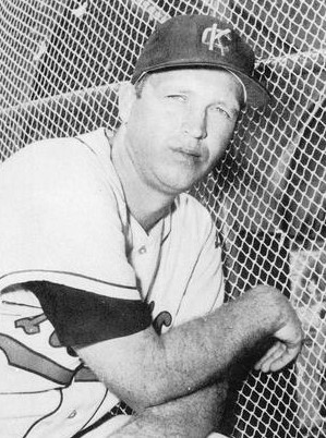 Professional baseball player Marv Throneberry